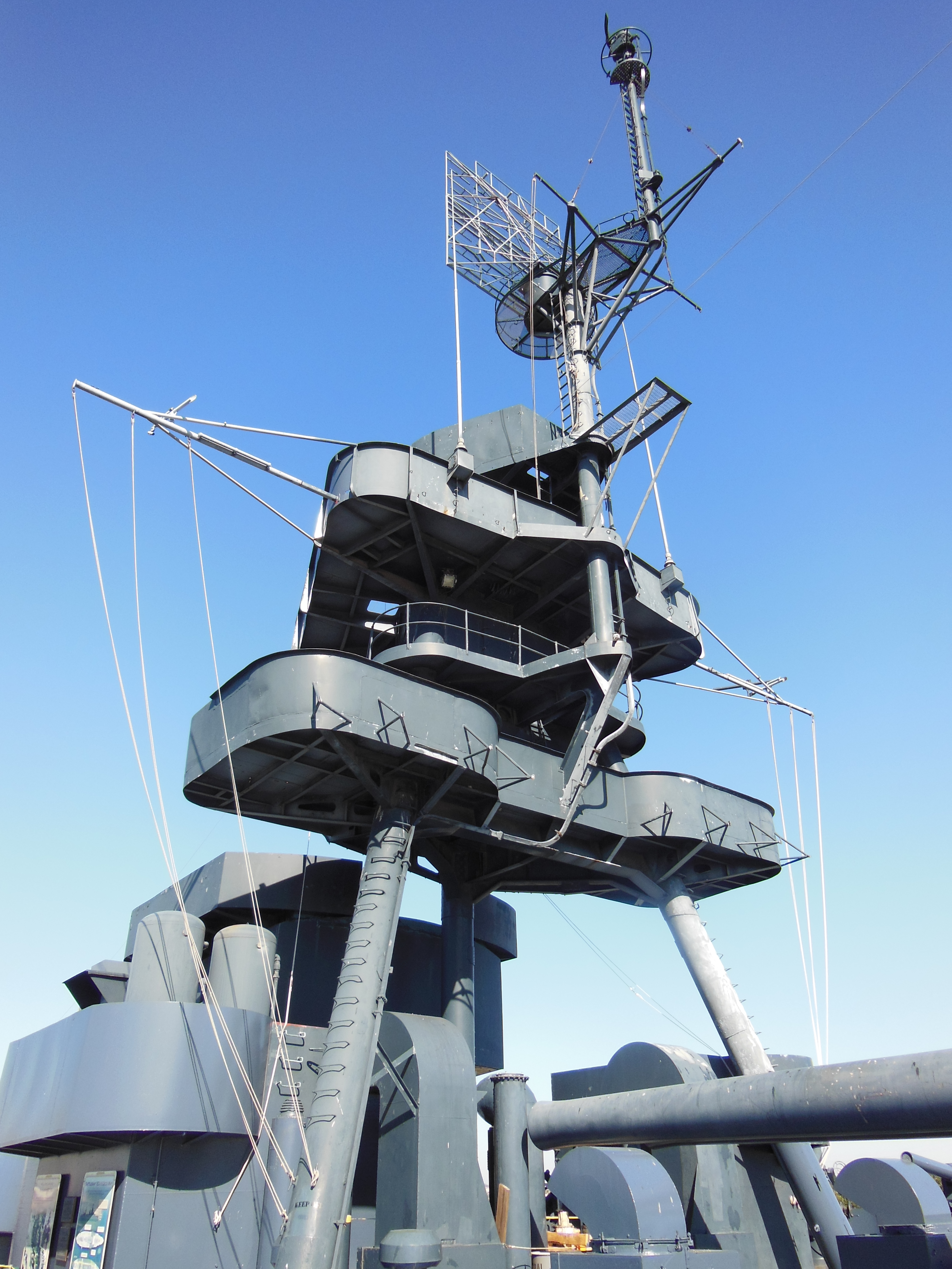 Battleship Texas, in San Jacinto State Park